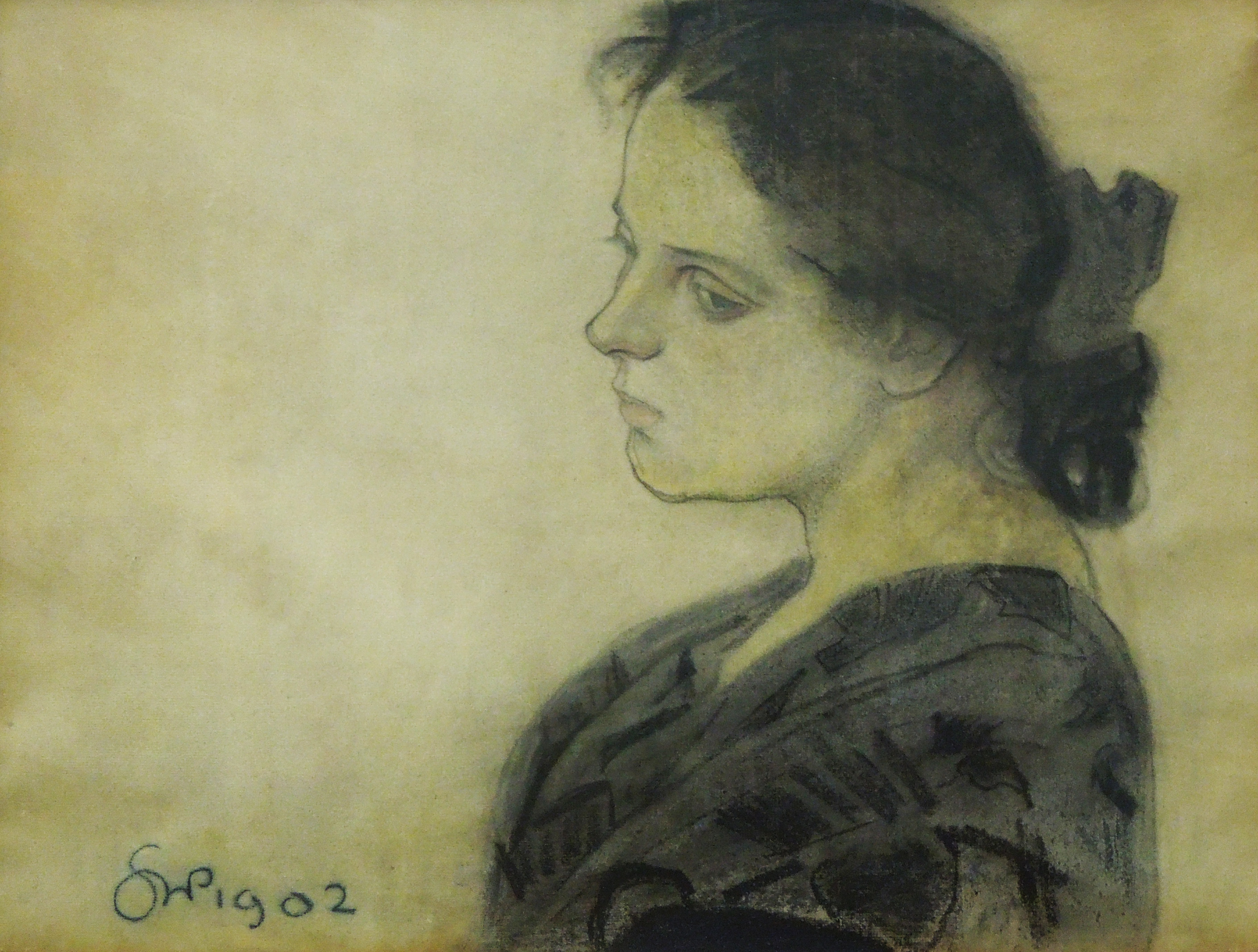 Stanisław Wyspiański - Portrait of Maria (Maryna) Pareńska